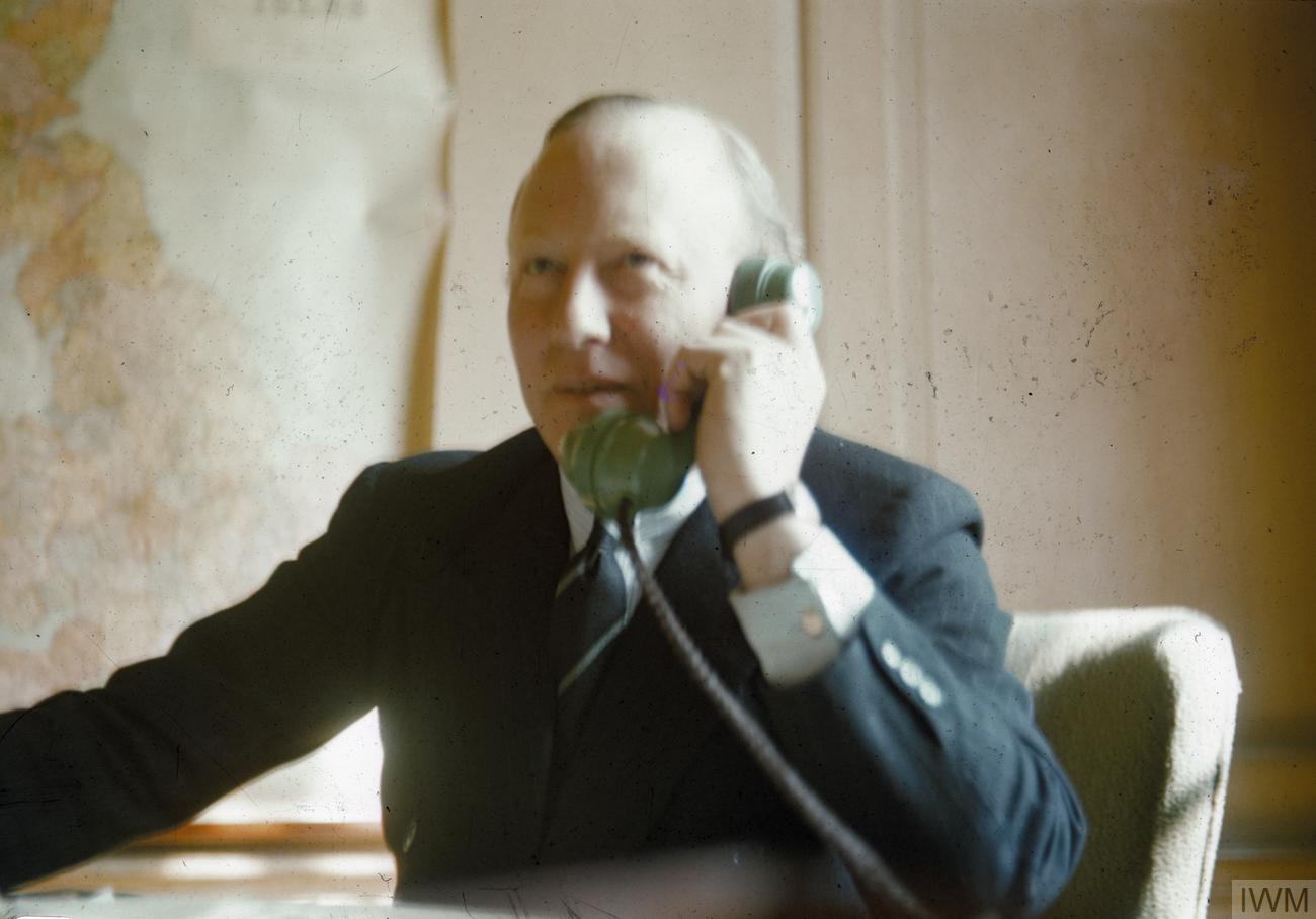 The Home Front in Britain during the Second World War- Personalities Close up of the Minister of Aircraft Production, The Rt Hon Colonel J J Llewellyn, MP, at his desk.